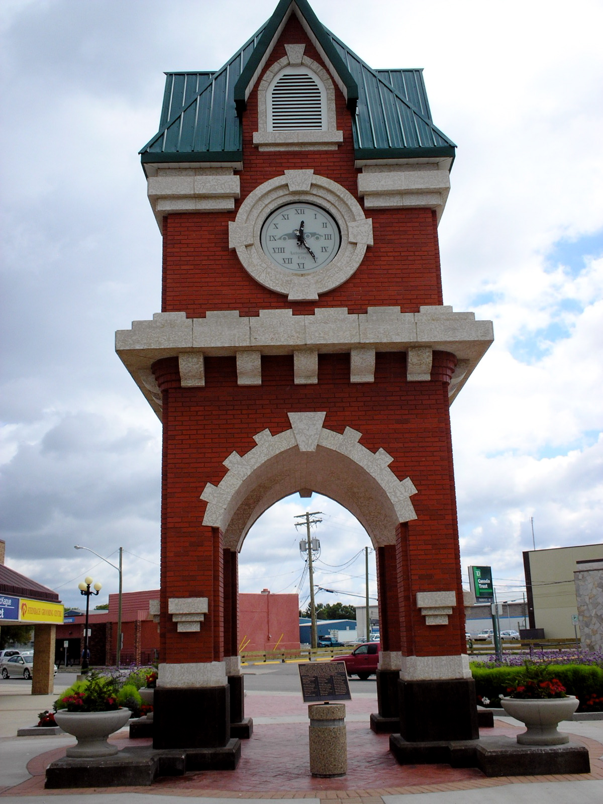 Le Steinbach Millenium Clock Tower au centre-ville de Steinbach, Manitoba, Canada. Photo prise 27 août 2005. The Steinbach Millenium Clock Tower in downtown Steinbach, Manitoba, Canada. Photo taken 27 August 2005.